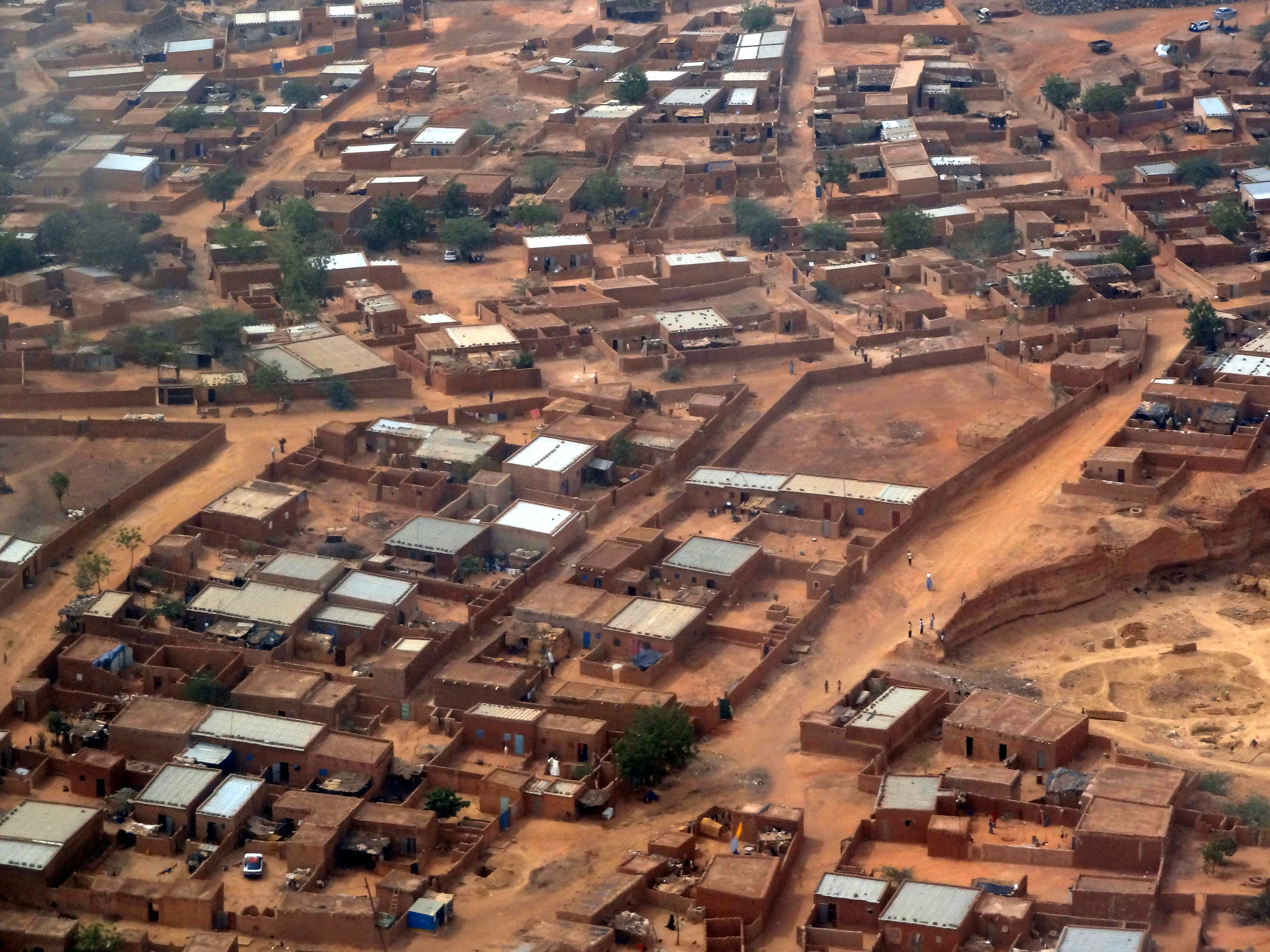 Aeria view of Niamey, the capital city of Niger. The Saga Kourtey area in the urban commune Niamey IV.